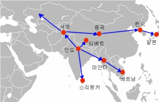 Added region names (Korean).